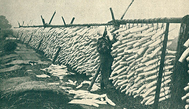 A farmer growing Nerima Daikon.